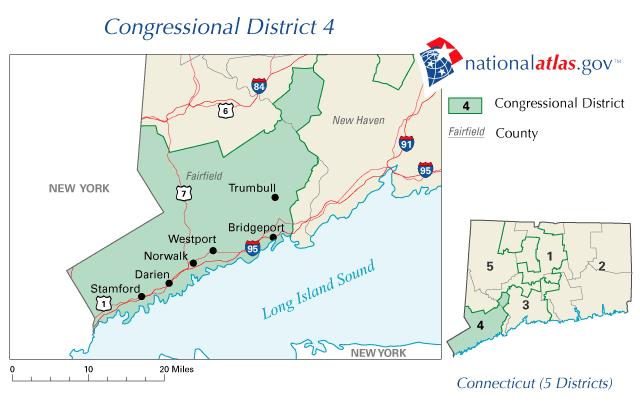 Map of Connecticut's 4th congressional district. Downloaded from and converted to PNG.